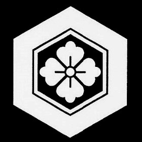 Crest of Endo Family